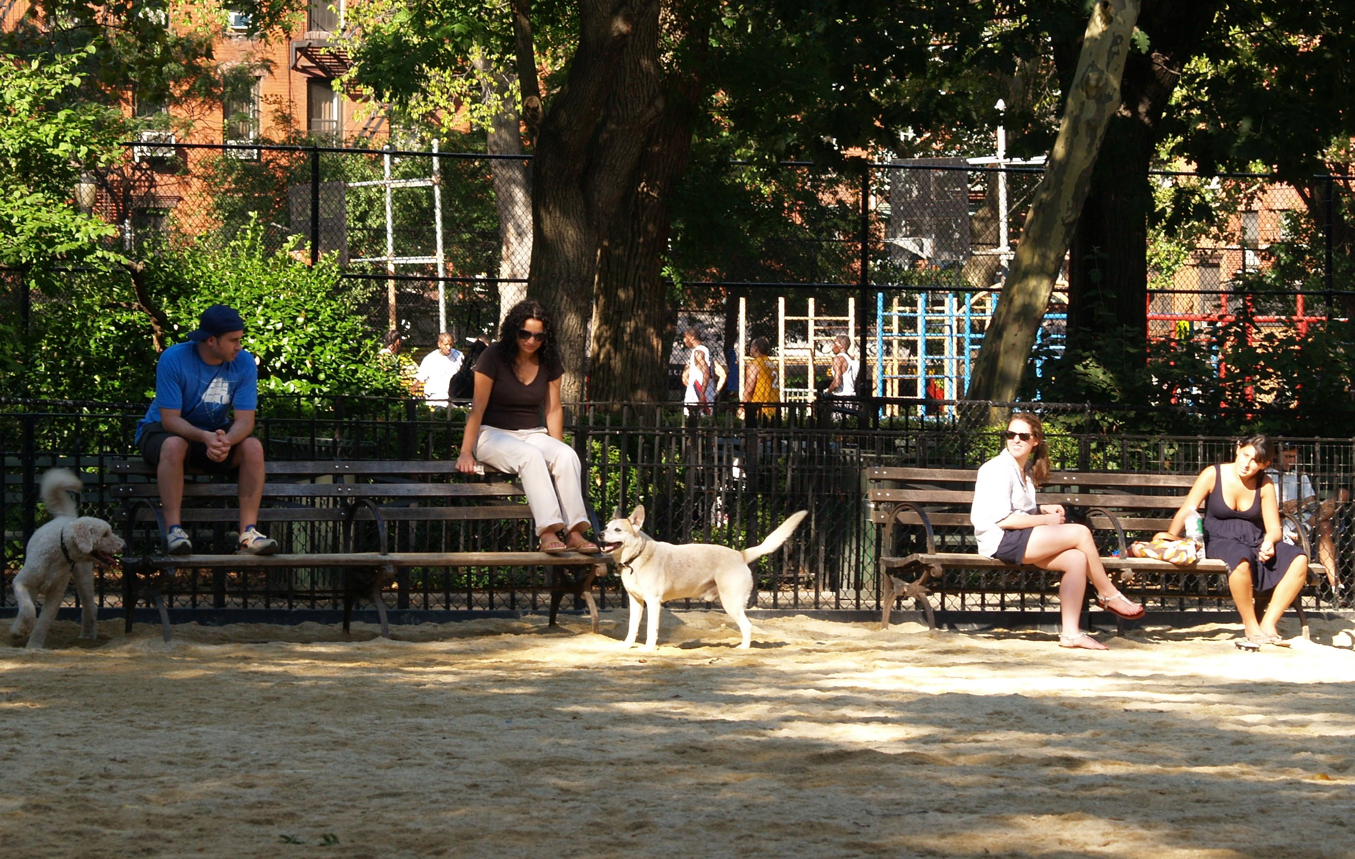 The Tompkins Square Dog Run was recently named by Dog Fancy magazine as one of the top five dog parks in the United States.. It is currently slated to undergo a $150,000 renovation, much of which will be funded by the New York City government, and a large portion of which will be raised by the efforts of the dog run patrons. Each year the run hosts a Halloween party to raise money to maintain the run. This is the biggest dog Halloween party in the United States, boasting an annual attendance of more than 400 dogs in costume and 2,000 spectators